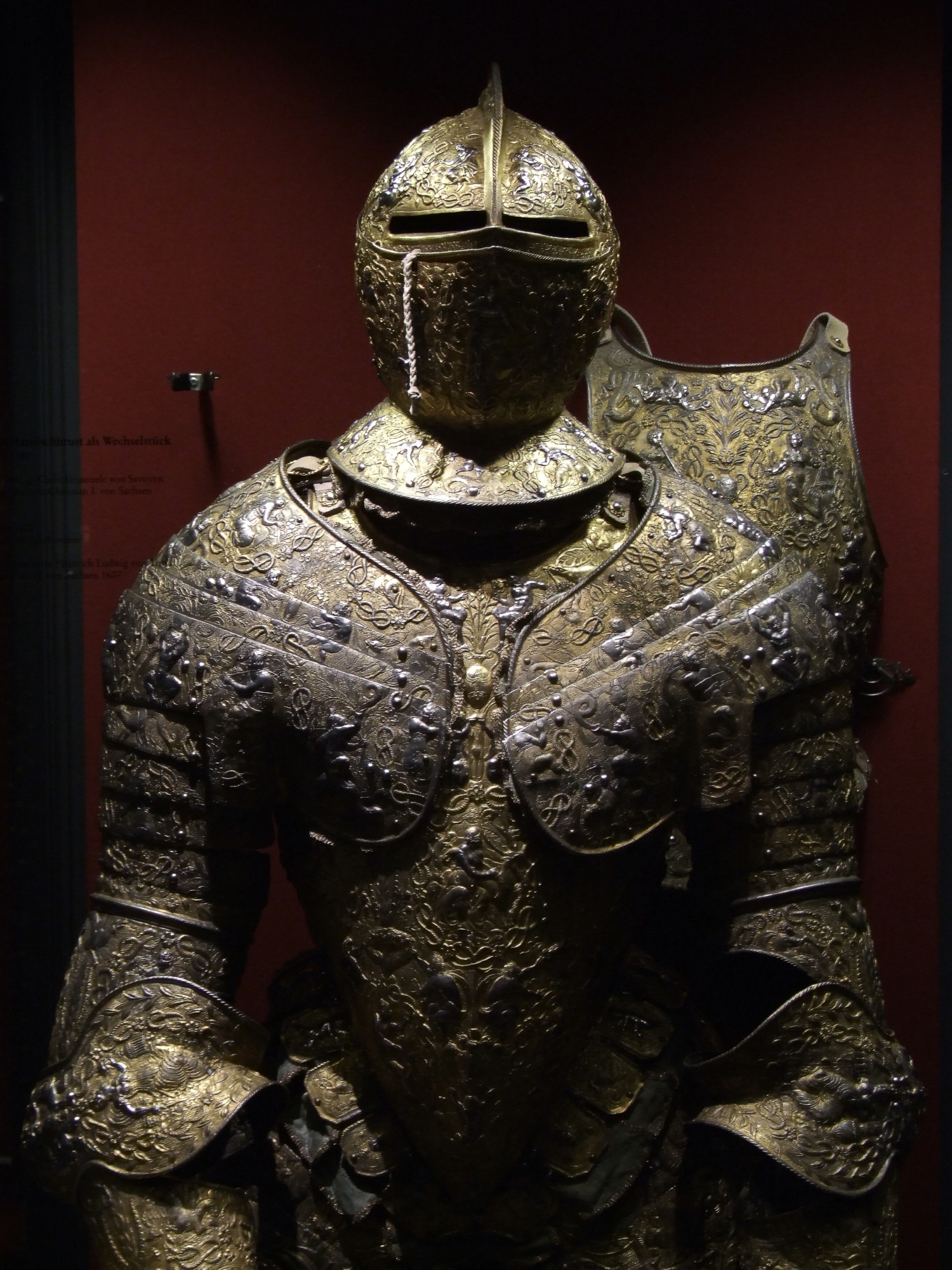 Rüstkammer, Dresden - plate armour. France, before 1588